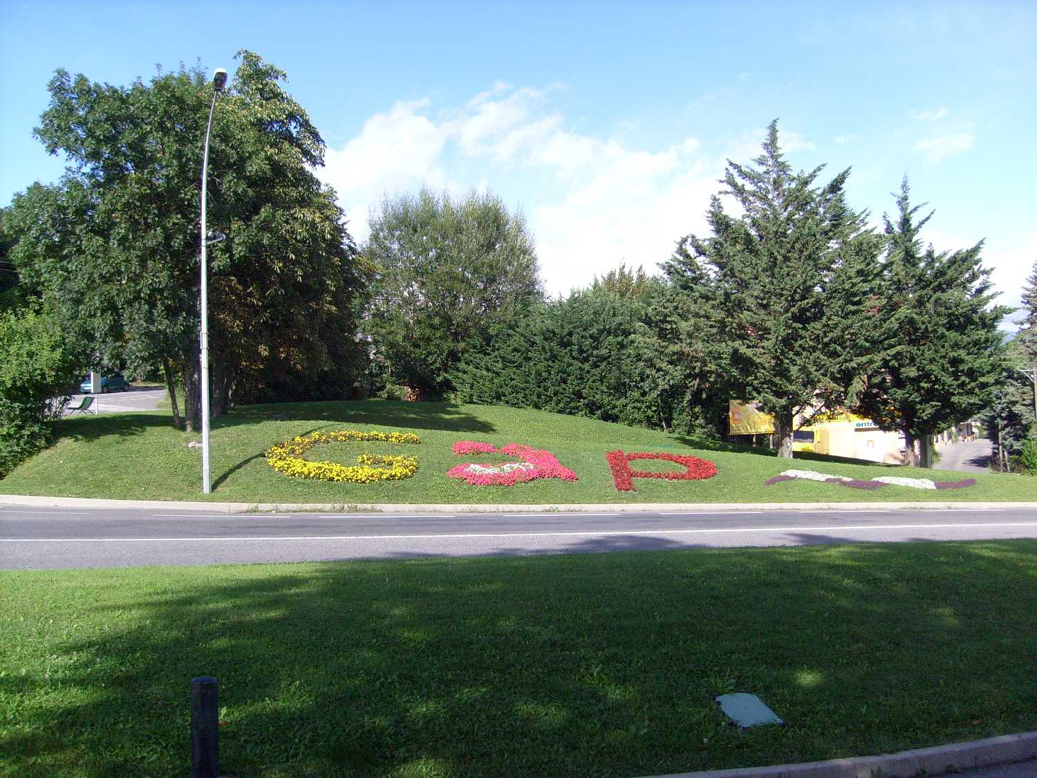 Gap, a full of flowers town. Logo of Gap made of flowers. Road near Bayard pass( Hautes-Alpes, France)